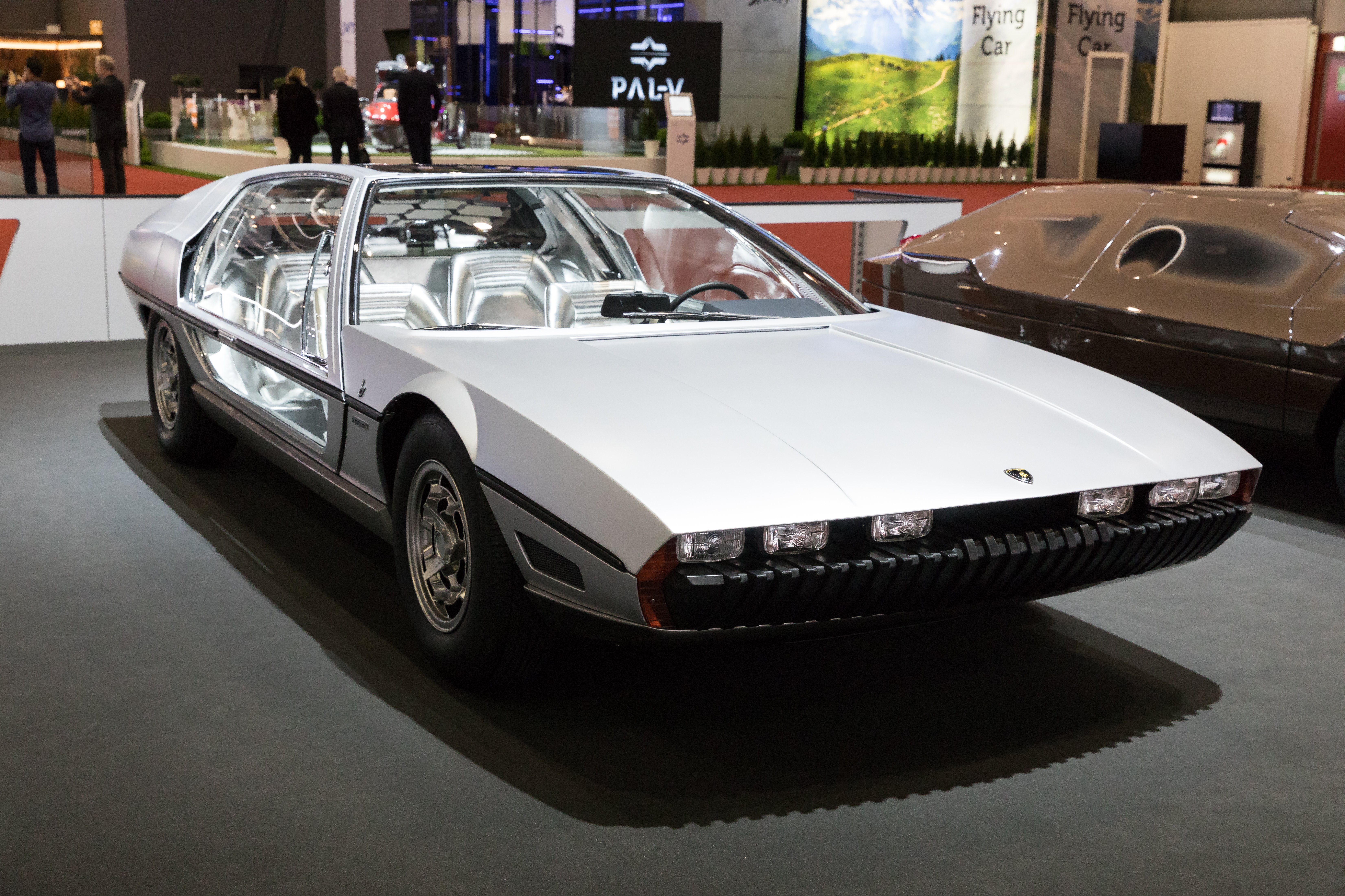 Lamborghini Marzal at Geneva International Motor Show 2018